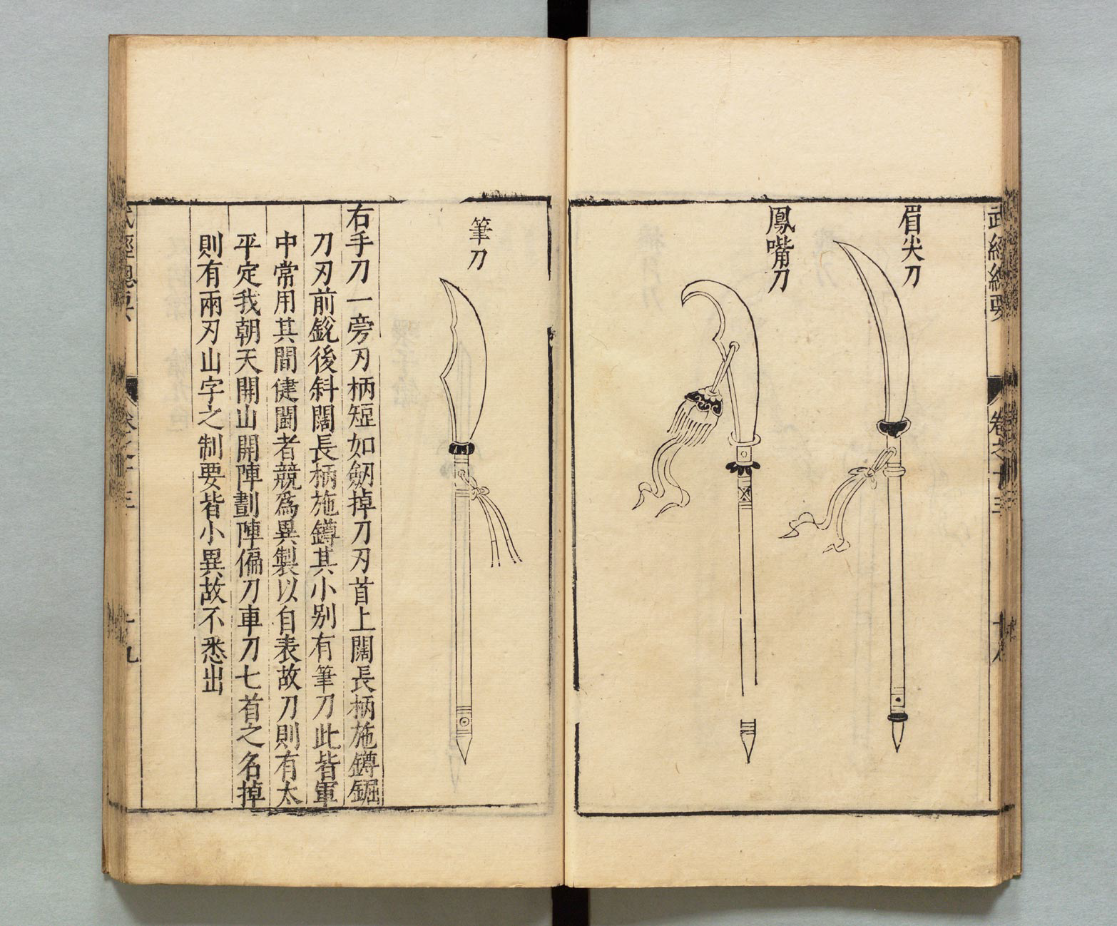 Bisento from the Wujing Zongyao 武經總要 compiled around 1040 to 1044.